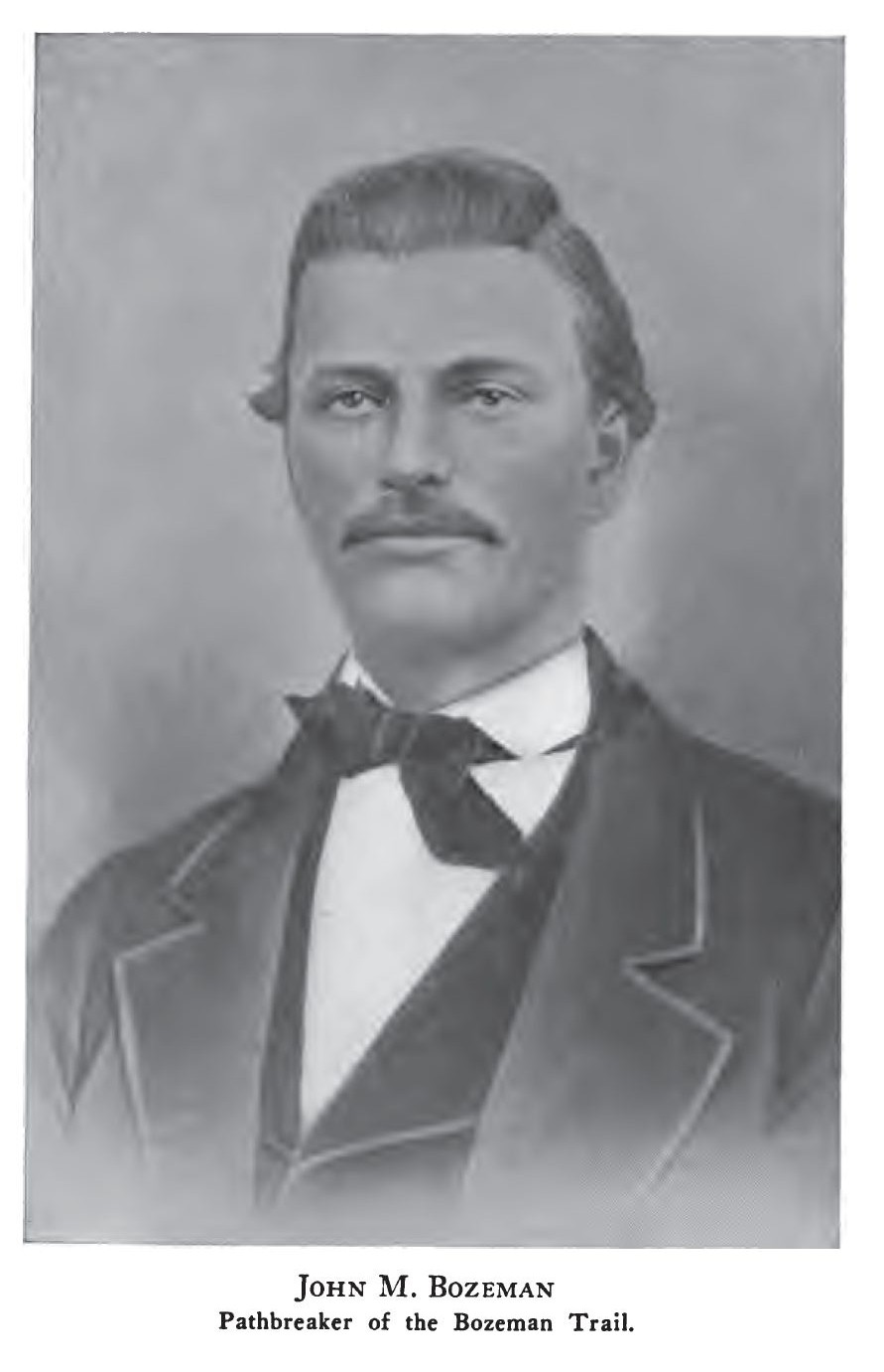 Portrait of John Bozeman from frontpiece of The Bozeman Trail, Vol II, 1922